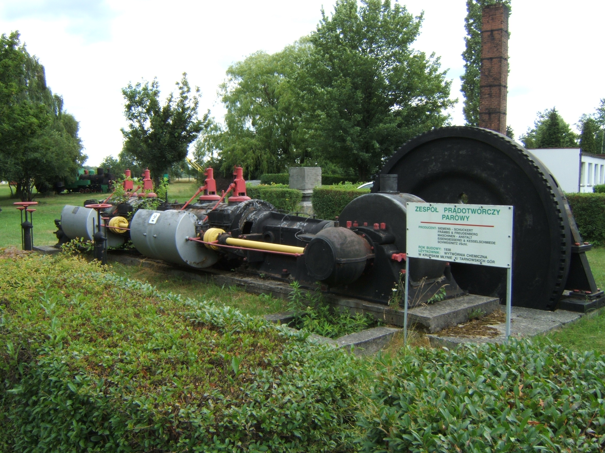 Steam-powered motor-generator. Exhibit of Steam Machines and Locomotives Heritage Park by historic mine in Tarnowskie Góry